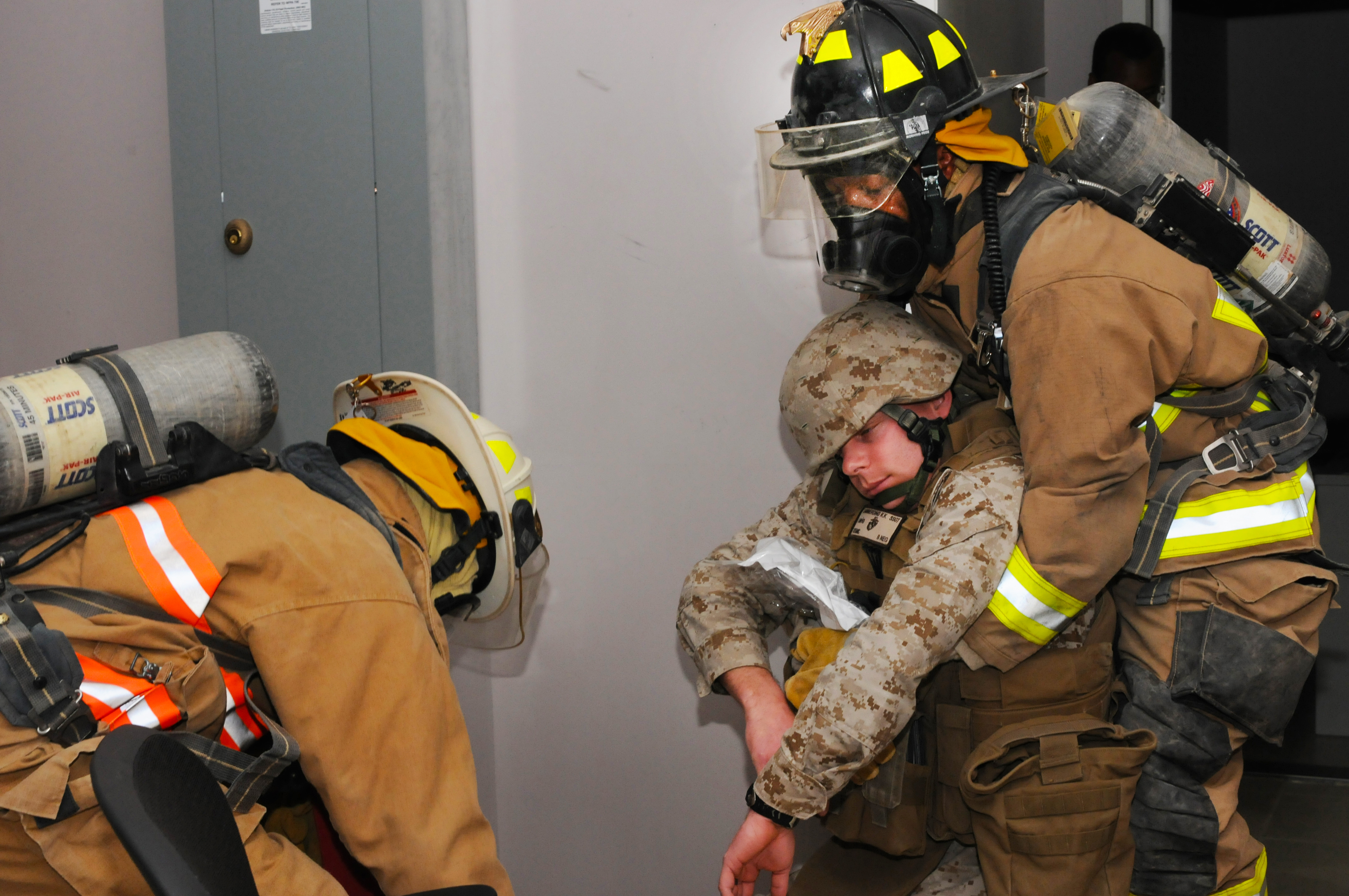 Fire-fighters on Camp Leatherneck, Afghanistan, carry Staff Sgt. Kyle Lammerding to safety during an exercise at Task Force Belleau Wood, April 12. Lammerding is a communications chief with I Marine Expeditionary Force Headquarters Group (Forward). Unit: Regional Command Southwest